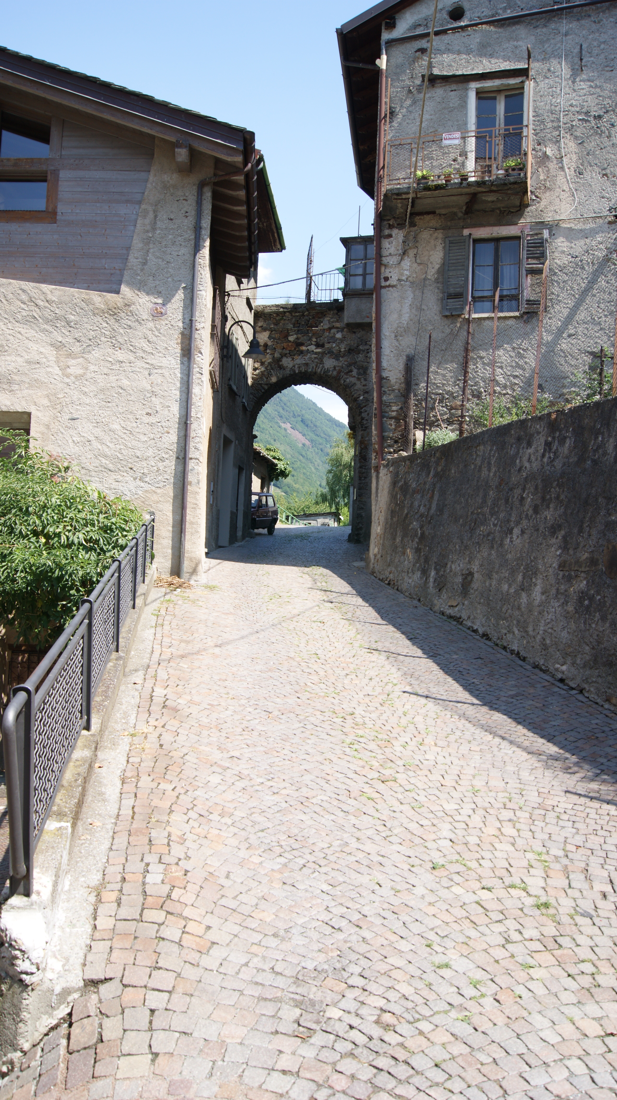 Town fortification of Tirano, Porta Bormina.